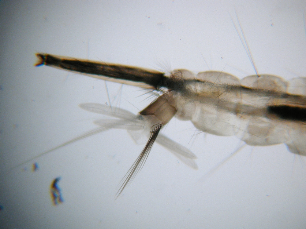 Culicidae - larva, Nied, Frankfurt/Main, Germany